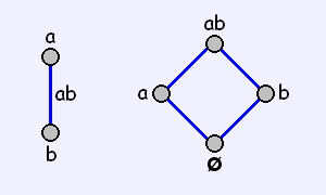 An Edge (Line Segment) and its Hasse Diagram